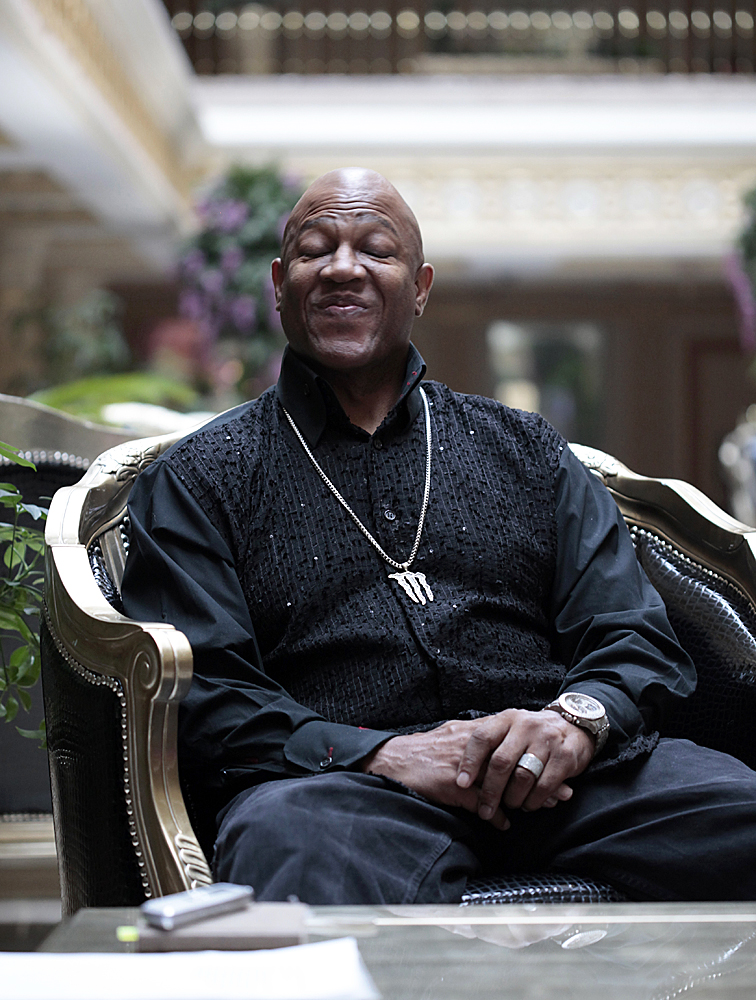 is an American character actor and former wrestler